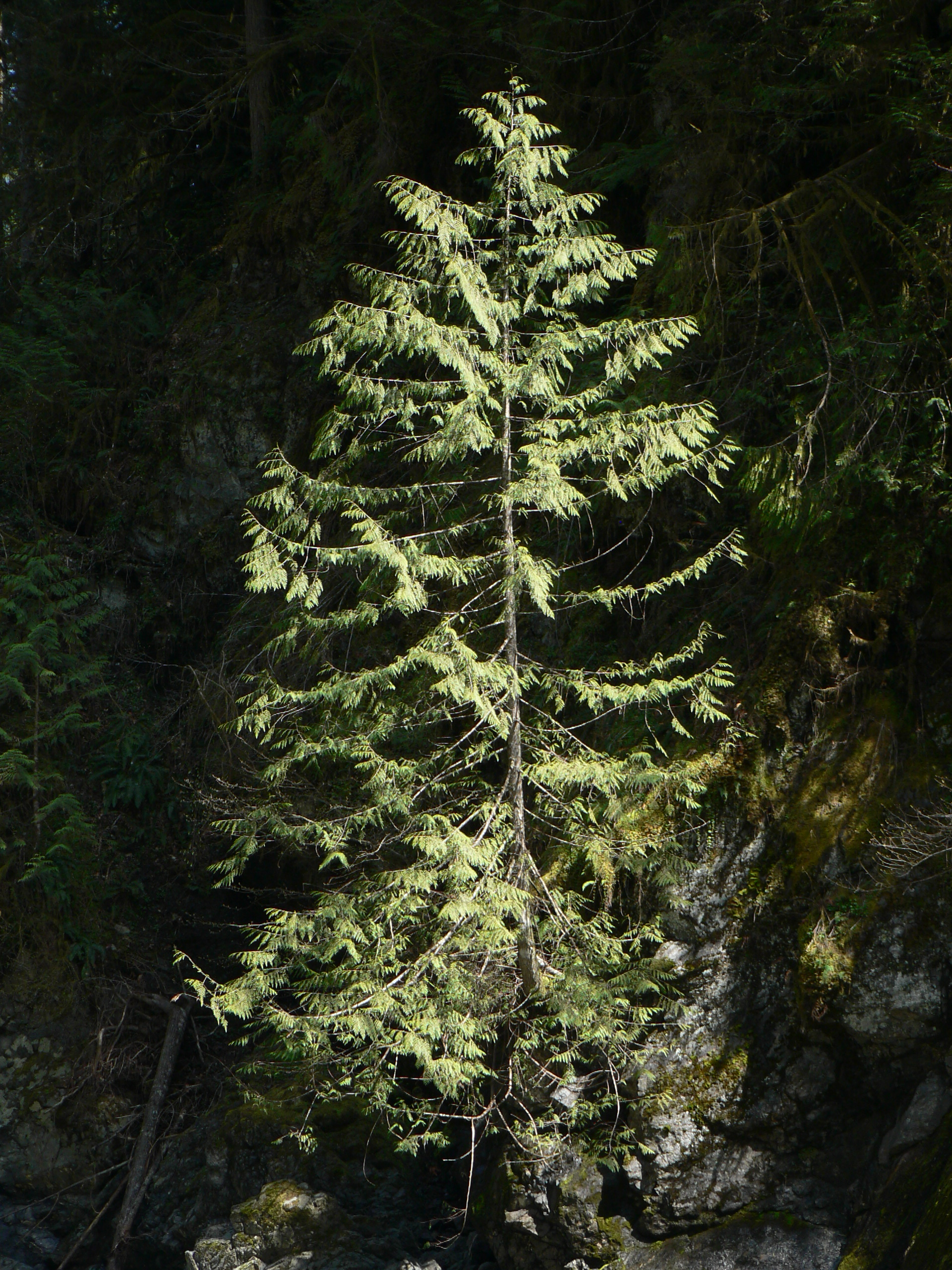 Western Red Cedar, Canoe Cedar